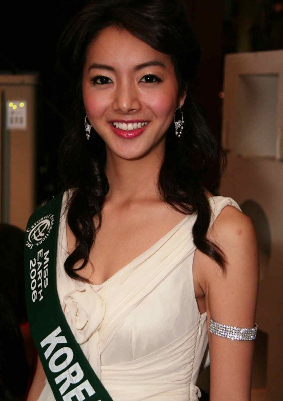 Hee-Jung Park, contestant at Miss Earth 2006